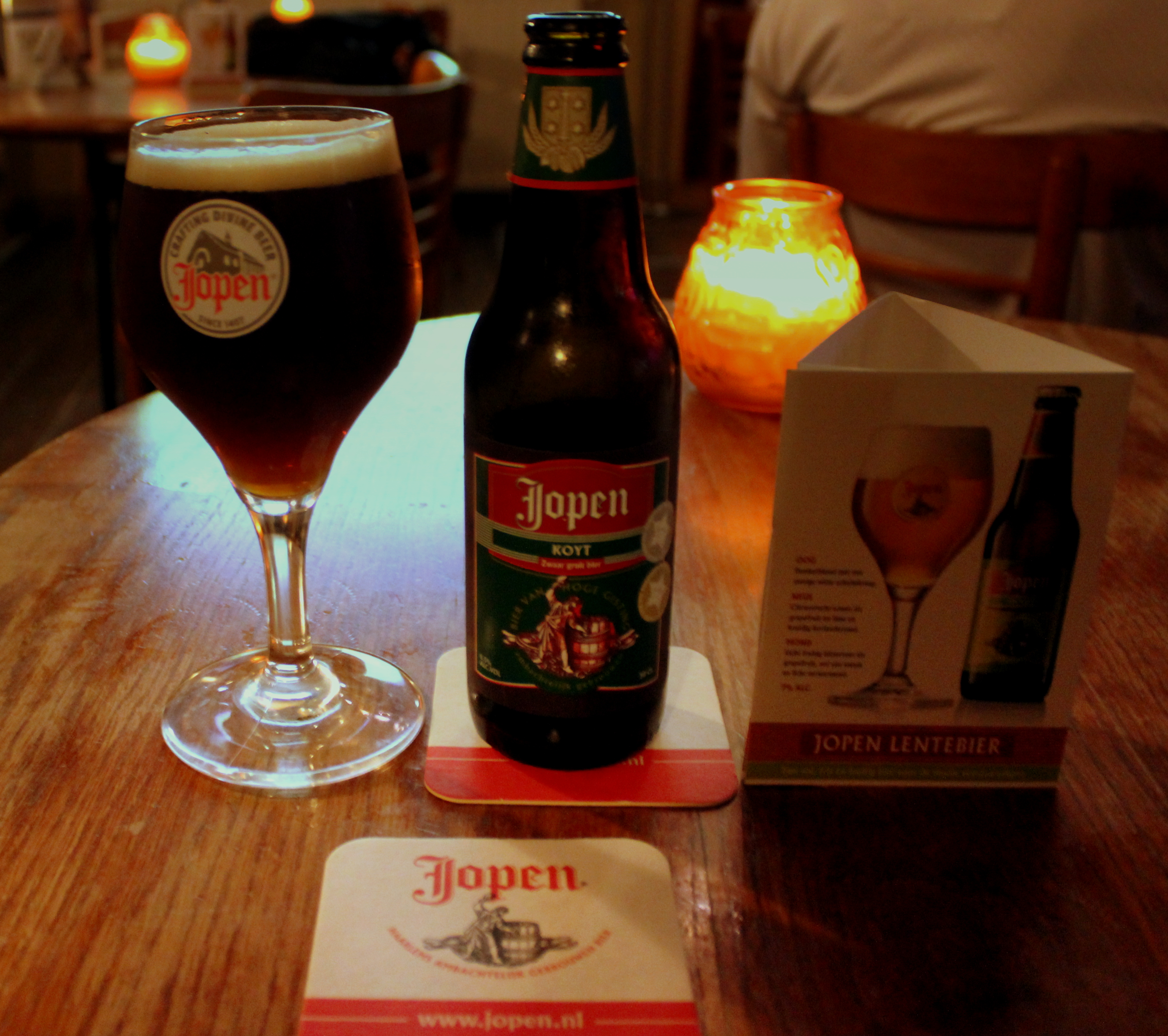 JOPEN KOYT BEER AT THE STAYOK HOSTEL HAARLEM NORTH HOLLAND JUNE 2014